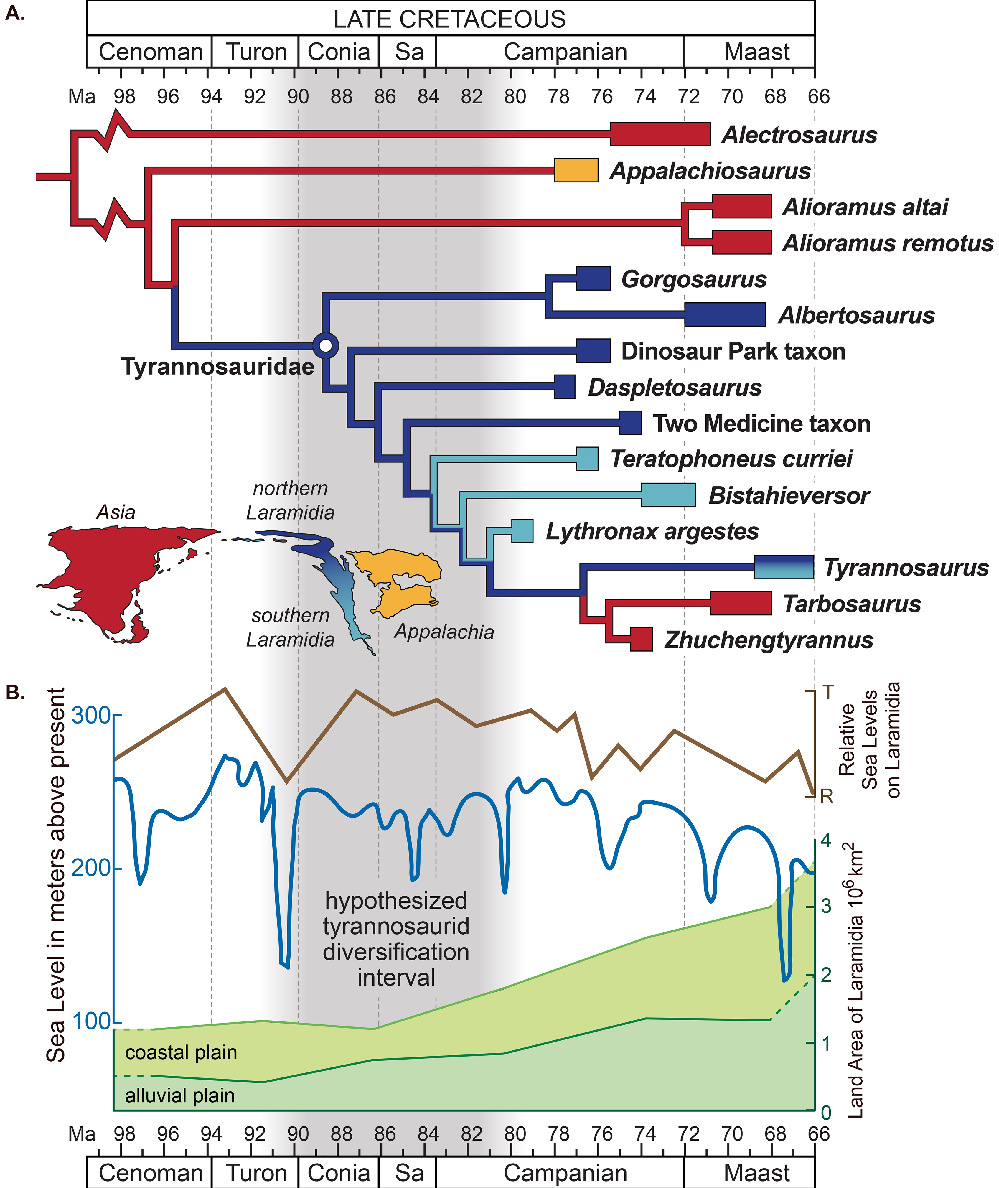 Sea level change and the hypothesized evolutionary diversification of Tyrannosauroidea. Sea level indicators include: (A) Time-calibrated phylogenetic relationships and paleobiogeographic distribution of tyrannosaurids with biogeographic origin indicated by color (see Methods and File S1 for details of analyses and the stratigraphic and phylogenetic relationships of tyrannosauroids within theropod dinosaurs). (B) Late Cretaceous regional transgression-regression cycles on Laramidia (brown [31]); global sea-level fluctuations (blue [34], [35]); and areal extent of Laramidia at minimum (alluvial plain) and maximum (alluvial plain and coastal plain) sea levels (green [1]).